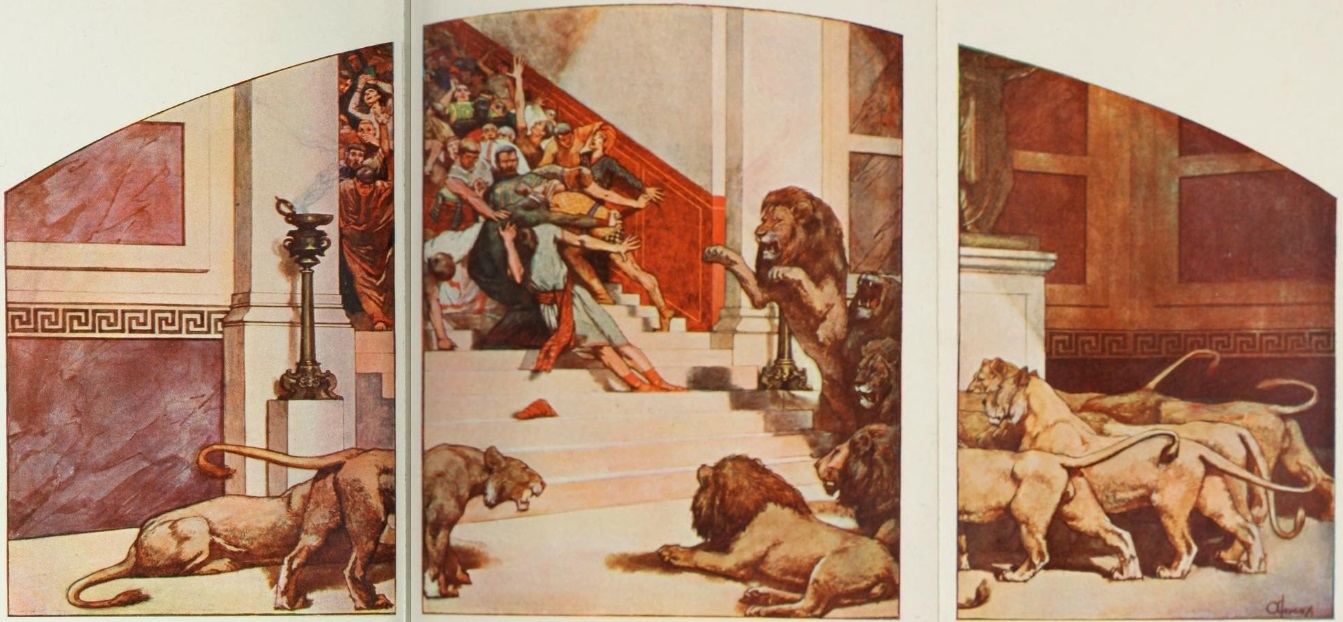 Illustration by A. Leroux